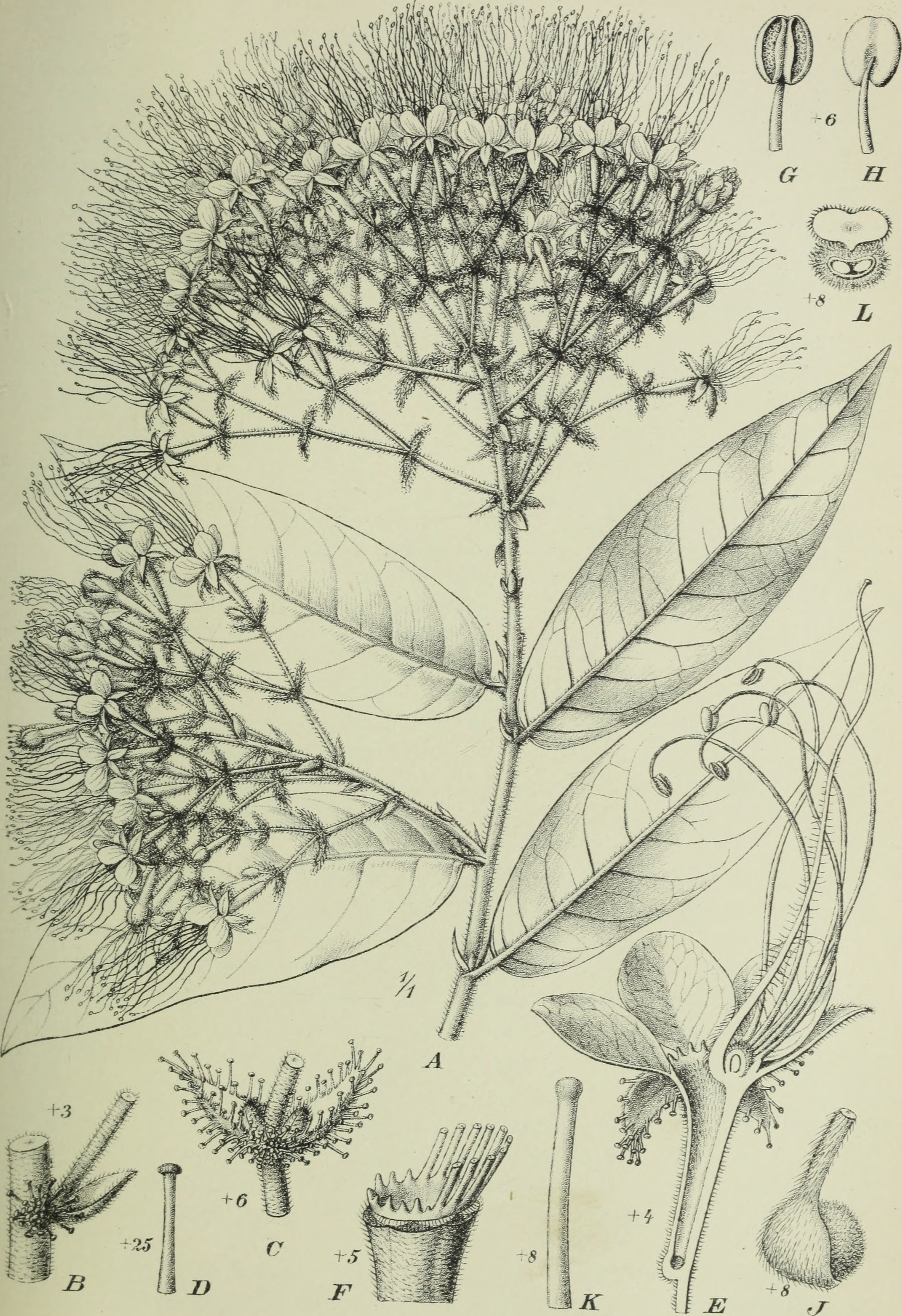 Title: Botanische Jahrbücher für Systematik, Pflanzengeschichte und Pflanzengeographie Year: 1881 (1880s) Authors: Engler, Adolf, 1844-1930 Subjects: Botany; Plantengeografie; Paleobotanie; Taxonomie; Pflanzen Publisher: Stuttgart : Schweizerbart Text Appearing Before Image: Engler, Bot.JaJiriiXXX.Bd. Tar. M. Text Appearing After Image: Acioa Goeizeana Engl. Pohl »d.nat.d.el Yerlag v.lVflhehu Eiujeiniaim :r.Leipzig. Lith AnstJulius Klinkhardt Leipzig